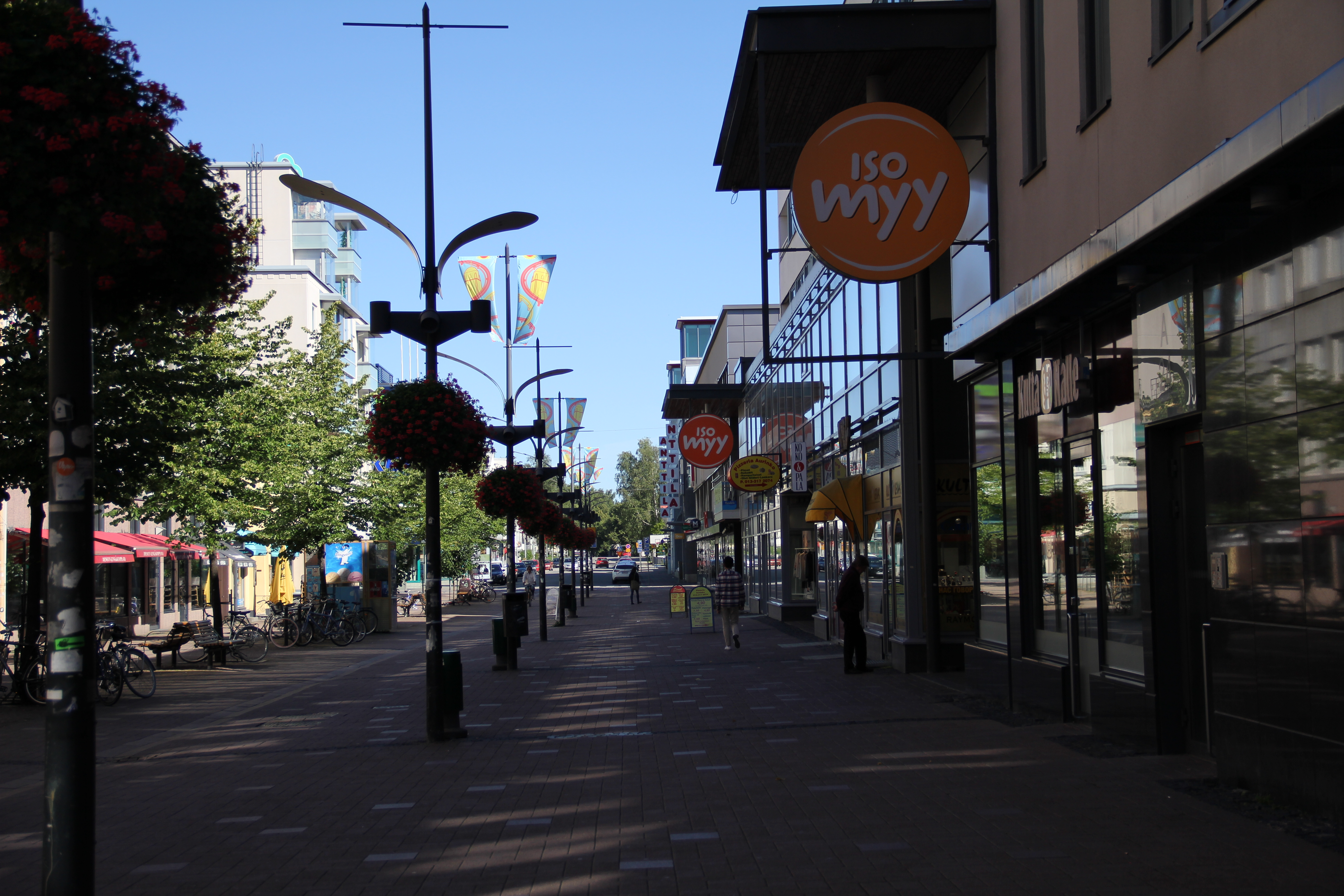 Shopping center Iso Myy, Joensuu, Finland. - Facade on Kauppakatu.